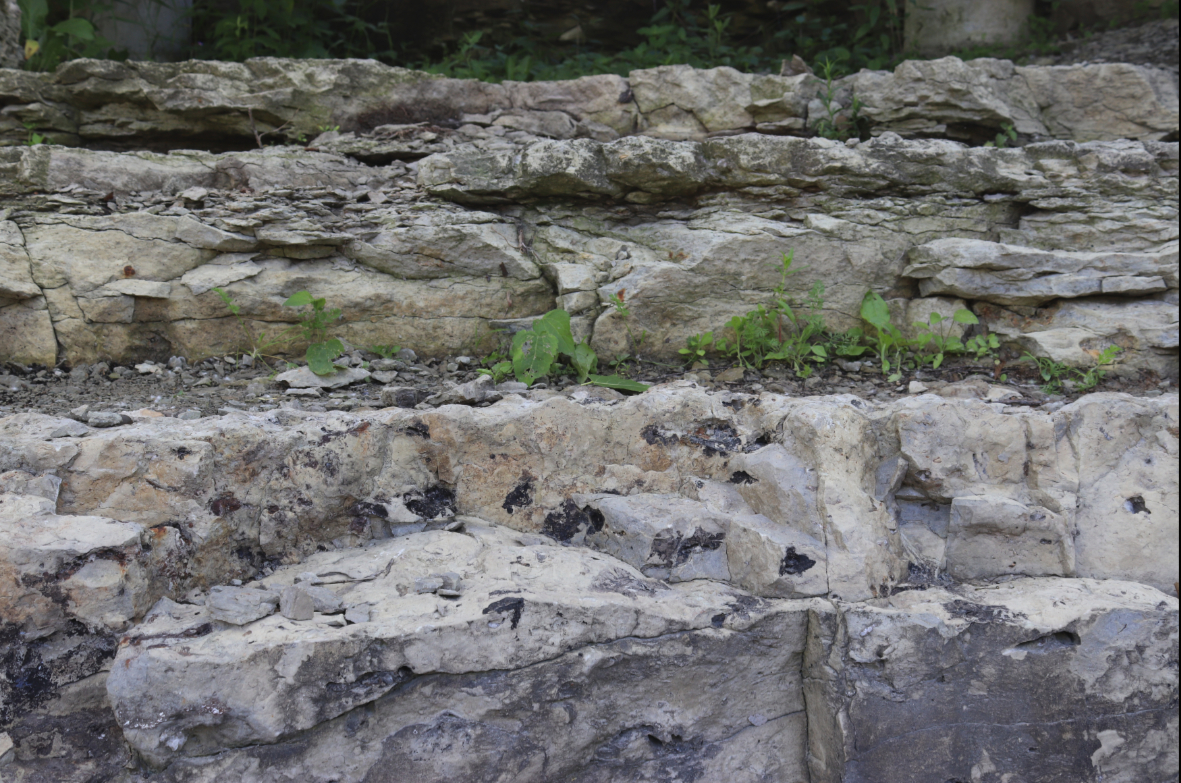 One meter section of Milwaukee Formation at the type locality in Estabrook Park, Milwaukee County, Wisconsin. Vegetation grows at disconformity between the Lindwurm (above) and Berthelet (below) Members. Photograph originally published in K.C. Gass, J. Kluessendorf, D.G. Mikulic, and C.E. Brett, 2019. Fossils of the Milwaukee Formation: A Diverse Middle Devonian Biota from Wisconsin, USA. Siri Scientific Press, Manchester, UK.